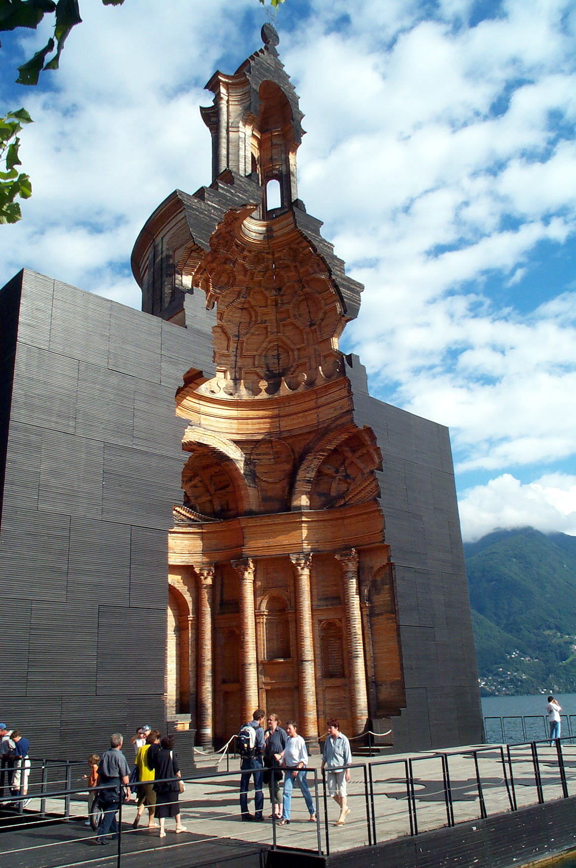 Model of San Carlo alle Quattro Fontane, located in Lugano (Switzerland), created under supervision of Mario Botta